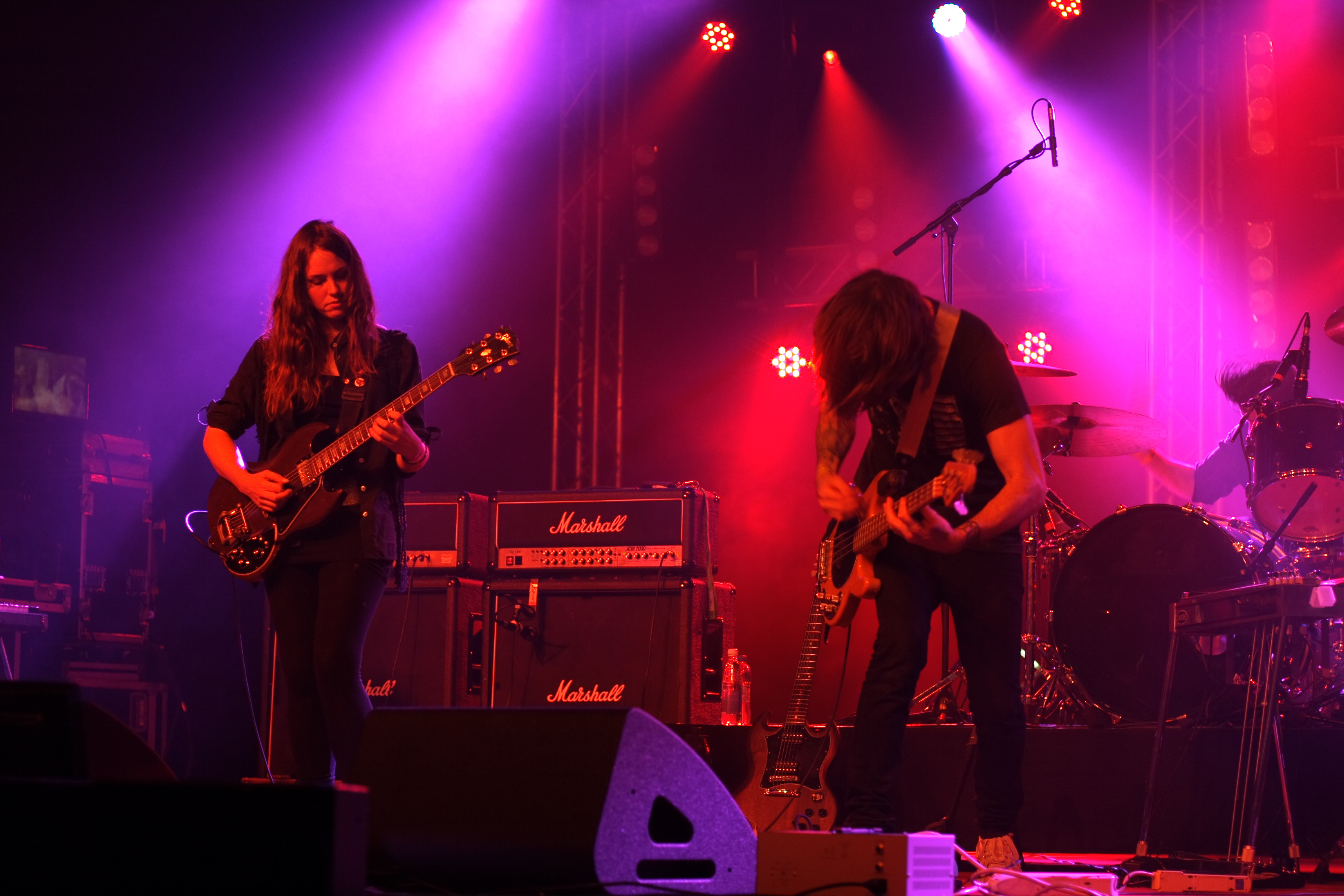 American post-rock band Red Sparowes performing in Joensuu, Finland (2011)